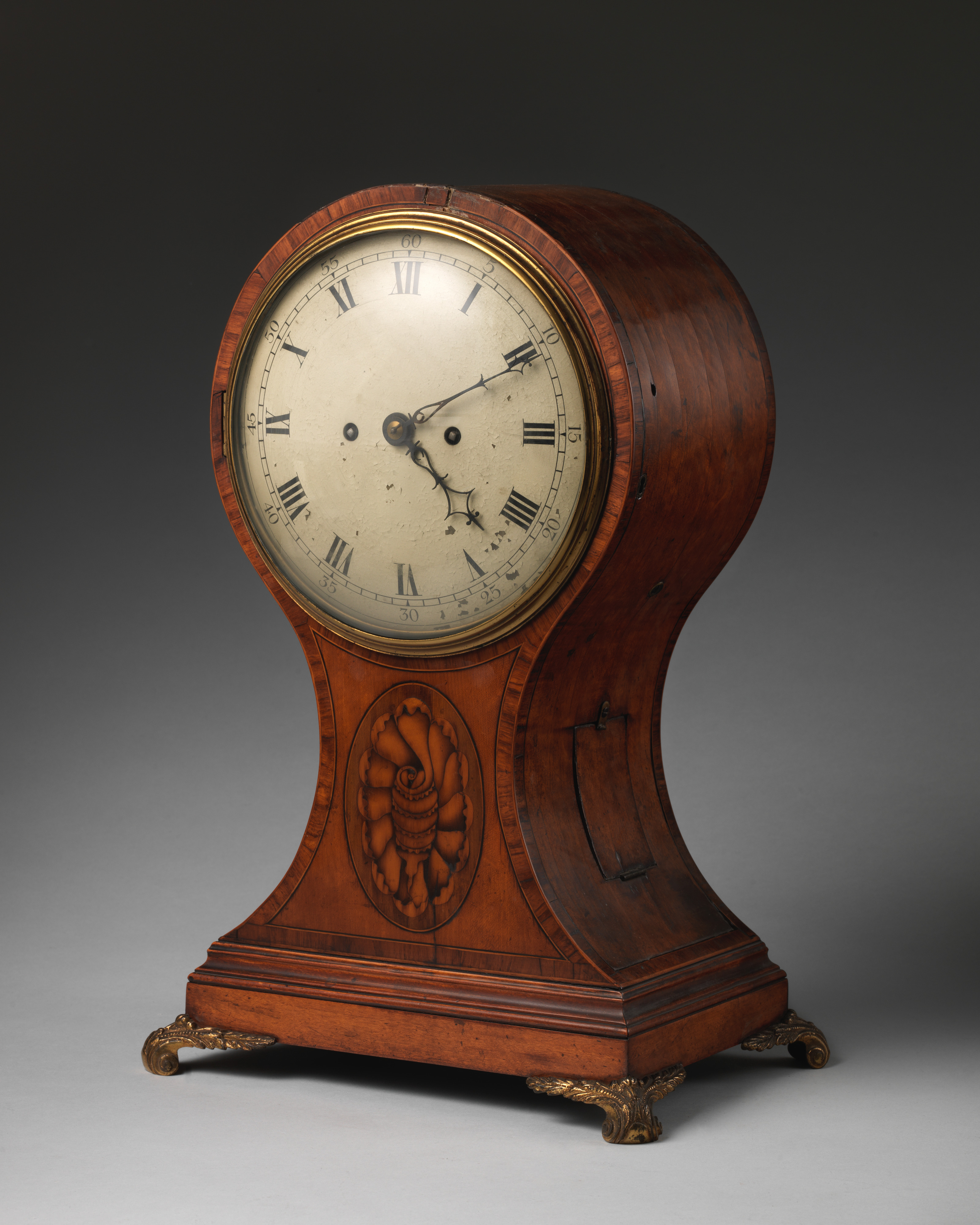 British; Bracket clock; Horology